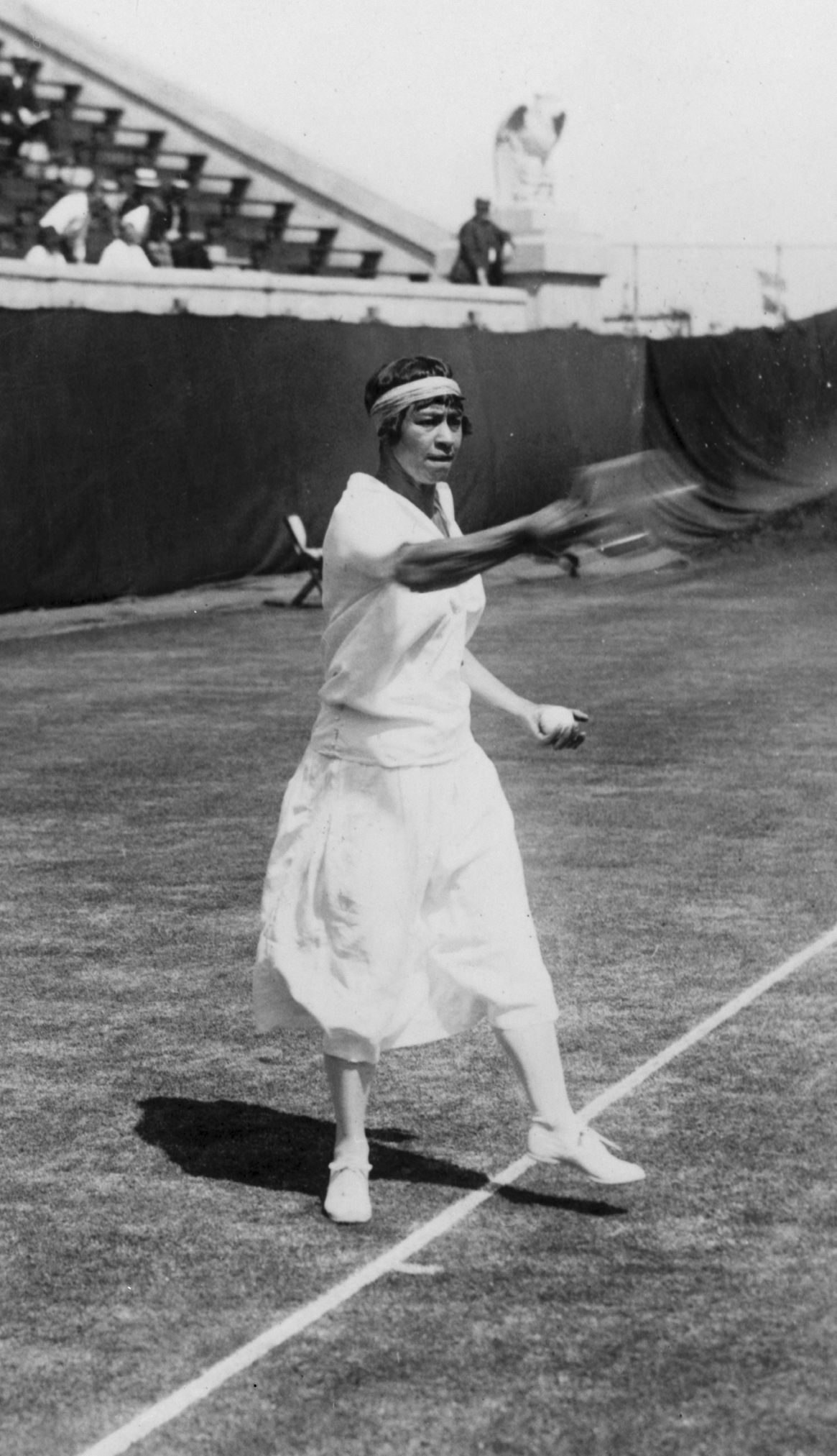 Molla Mallory (1884–1959), Norwegian-born American tennis player, during a game in 1924